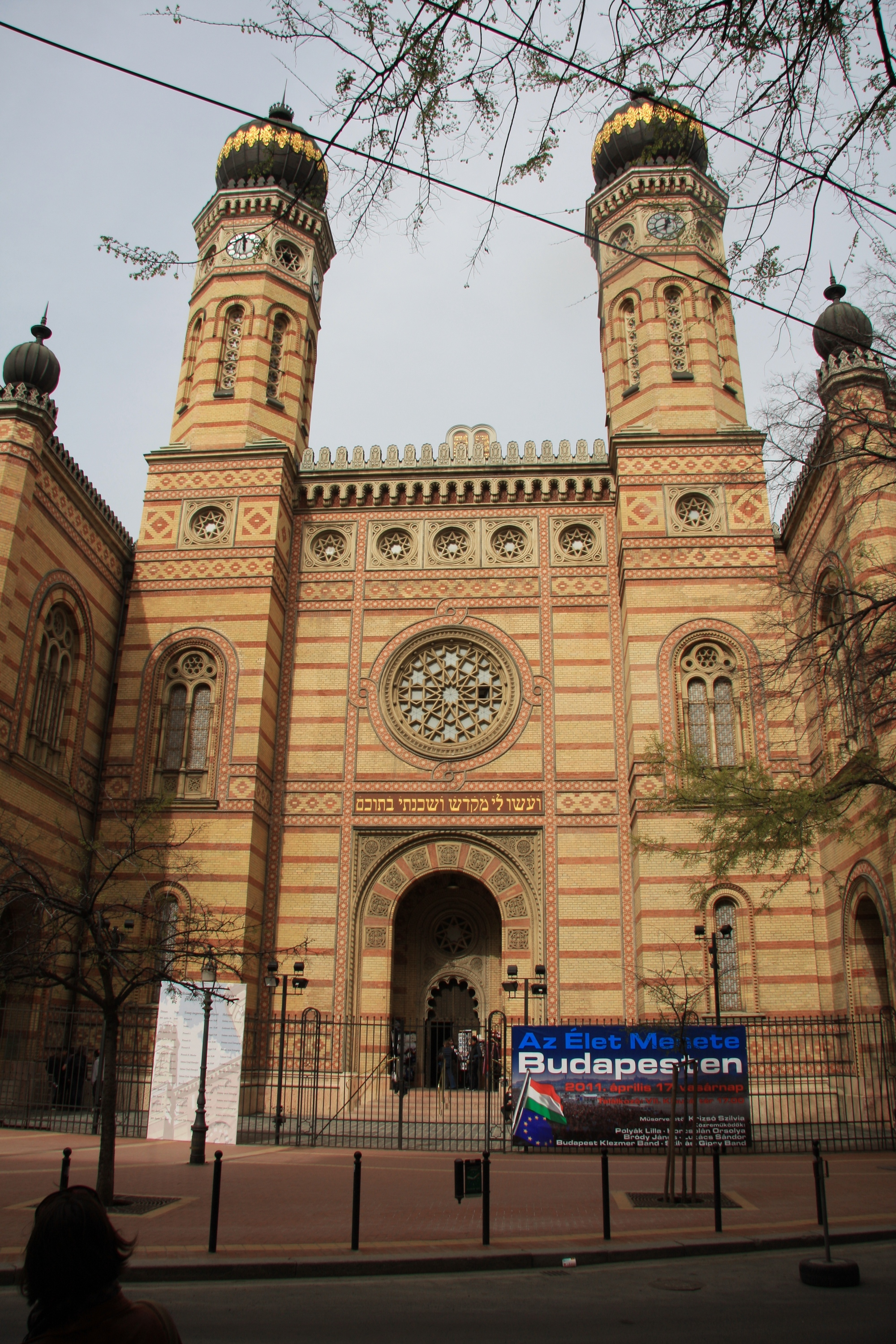 The Dohány Street Synagogue in Budapest